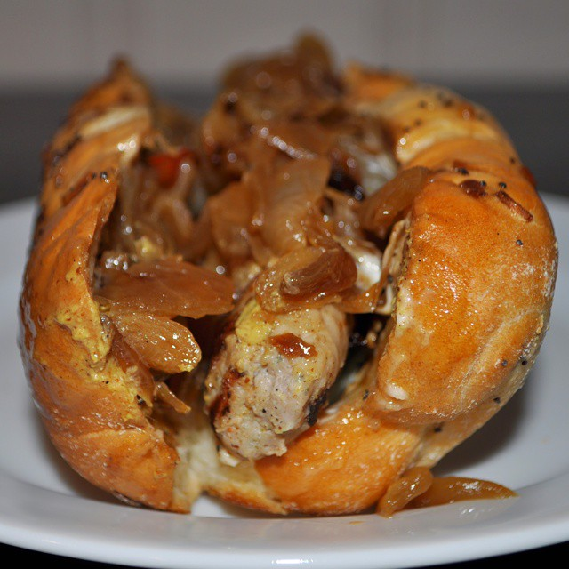 Sausage fest! I definitely recommend this #veal #bratwurst from Jeff's Gourmet on Pico. The #grilled #onions and onion roll are bomb. Try it! #foodporn #sausage #dinner